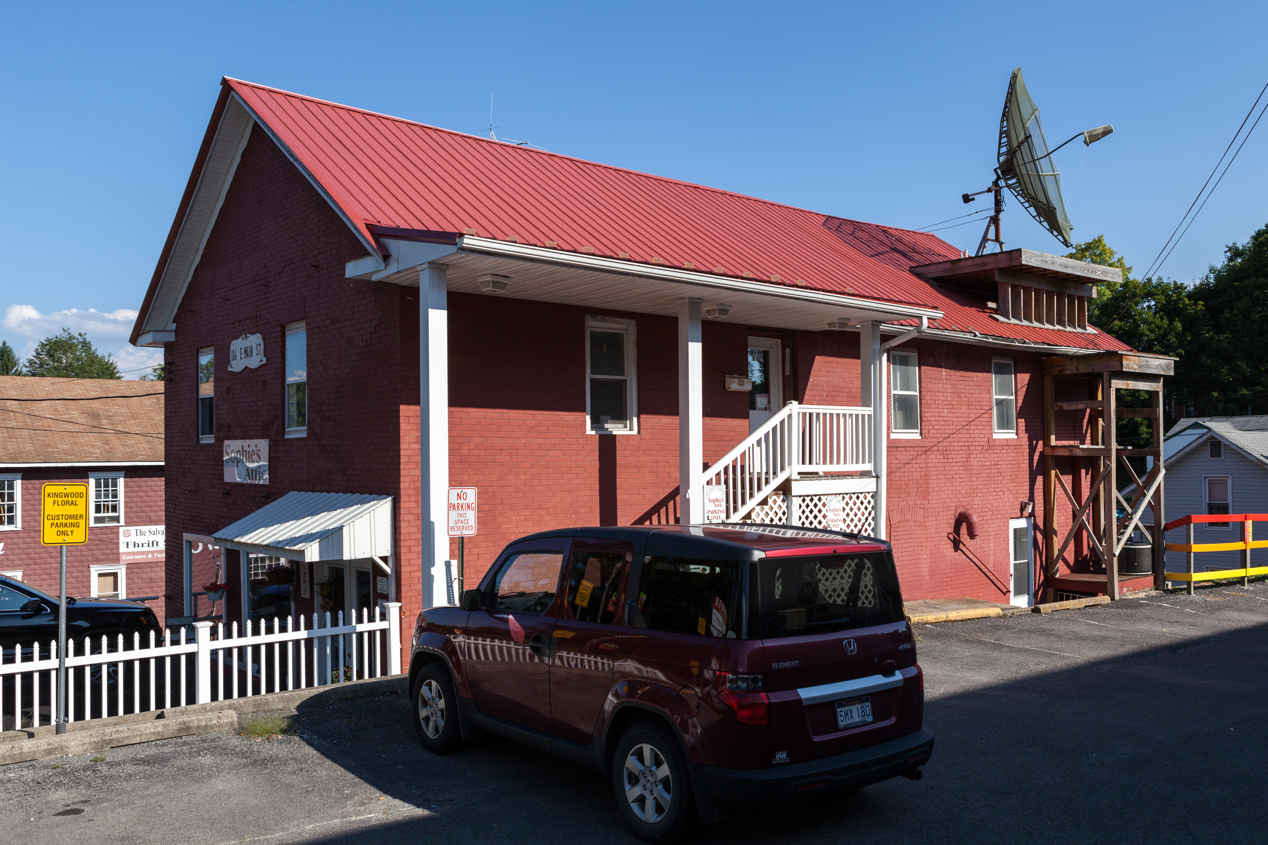 The entrace to the WKMM studio building at 106 East Main Street in Kingwood, West Virginia.